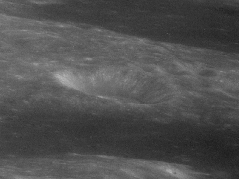 Oblique view facing approximately north of Sabatier, on the moon.